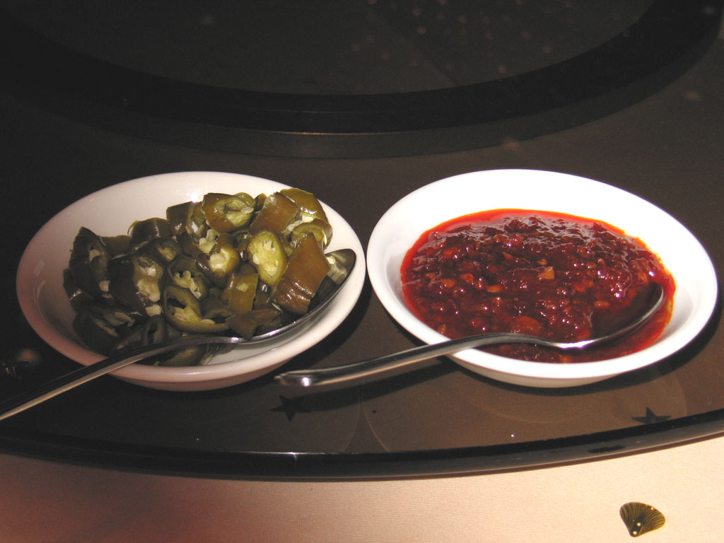 Chili condiments. taken at a dinner at a hotel.